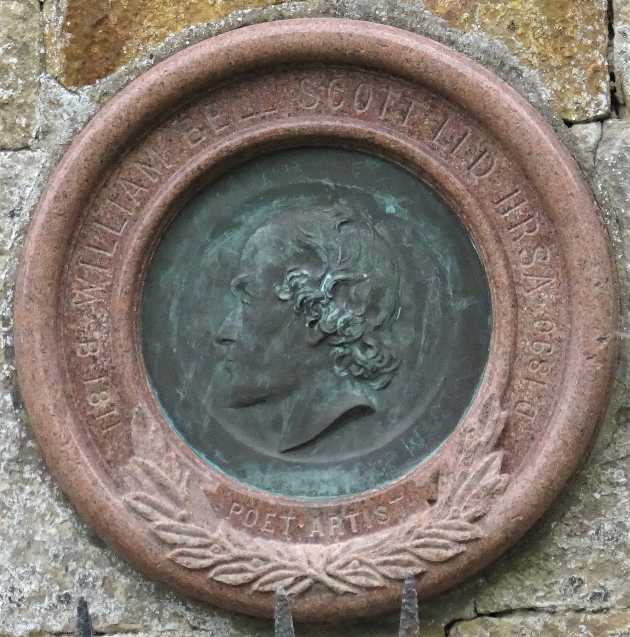 William Bell Scott Memorial, Old Dailly, South Ayrshire. Located on the gable end of the mausoleum of the Boyds of Penkill.